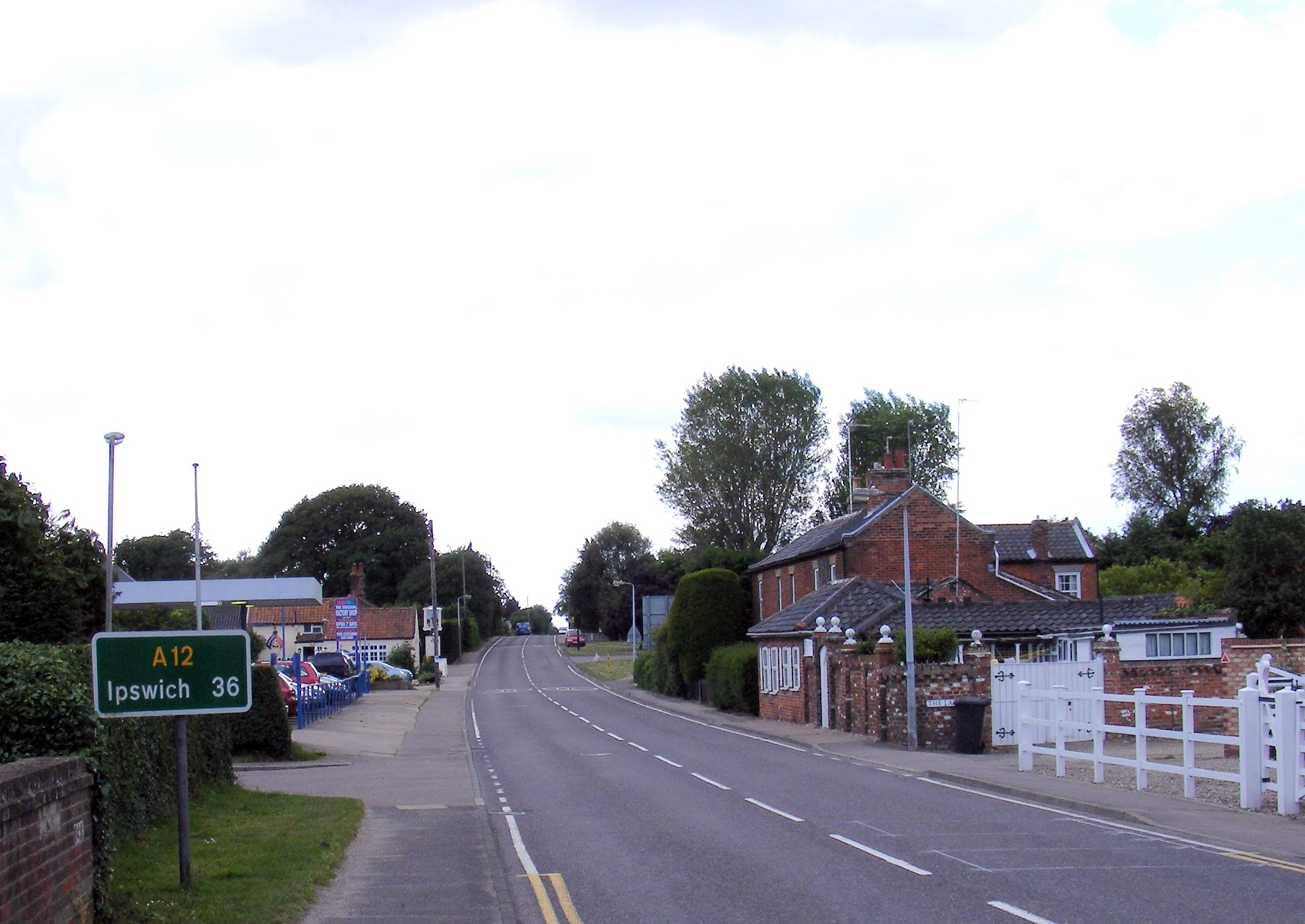 A12 London Road, Wrentham Looking towards Saxmundham